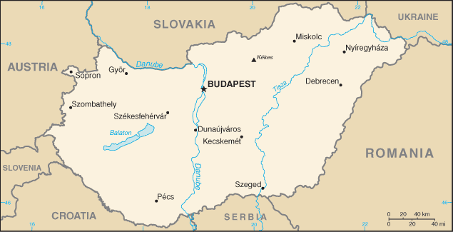 CIA political map of Hungary